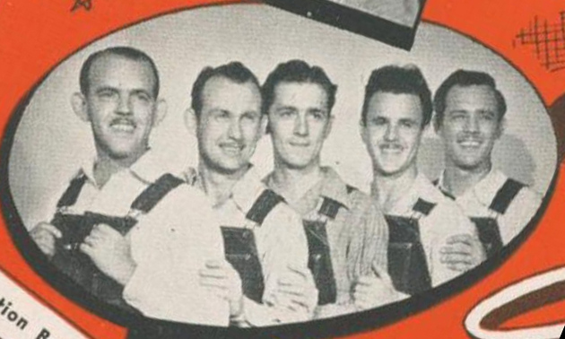 The Plantation Boys with Hank Penny